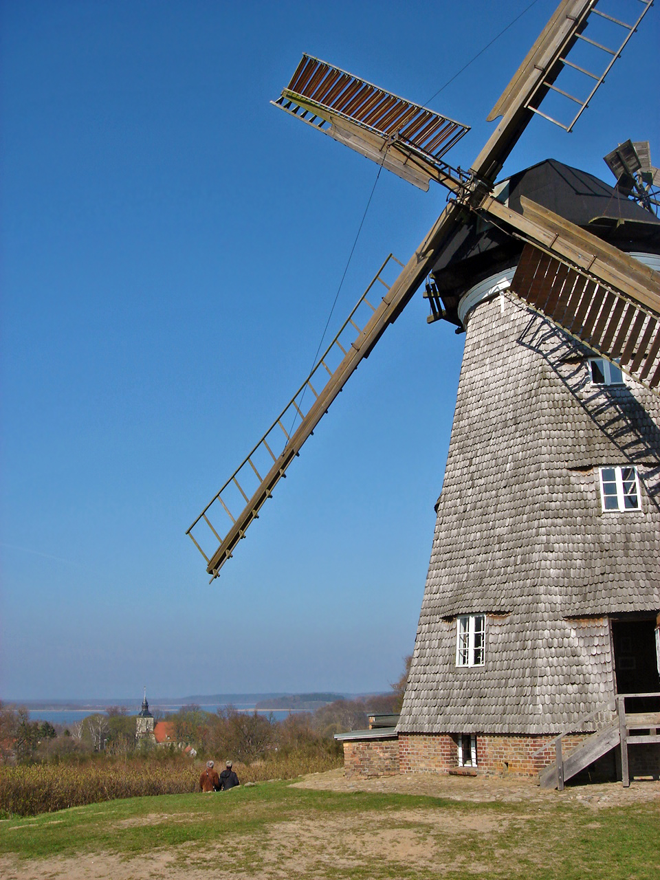 Windmill of Benz on the Island of Usedom. You can spot the town church in the background, as well as Lake Schmollensee.